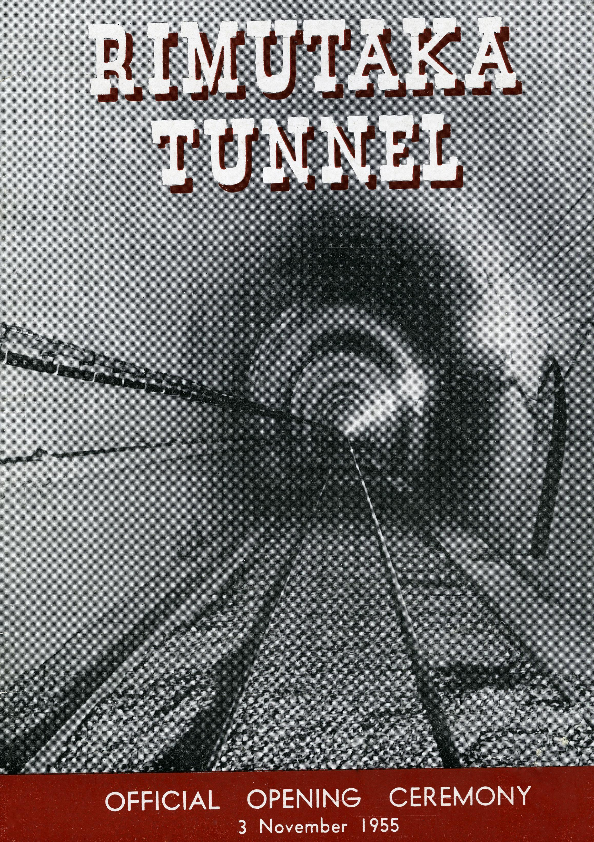 Archives Reference: ABIN W3337 Box 147 Front cover of the commerative brochure of the opening ceremony of the Rimutaka Tunnel, 3 November 1955. Produced by the Railways Publicity and Advertising Branch. Th official ceremony was held at Speedy's Crossing, Featherston. Speeches were made by the Minister of Railways, Hon. J.K. McAlpine, MP for Wairarapa, B.V. Cooksley, Leader of the Opposition, Rt. Hon. W. Nash, Minister of Works, Hon. W.S. Goosman and the Prime Minister Rt. Hon. S.G. Holland.